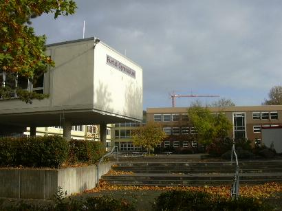 Rurtalgymnasium Düren own work papa1234 2006-11-01